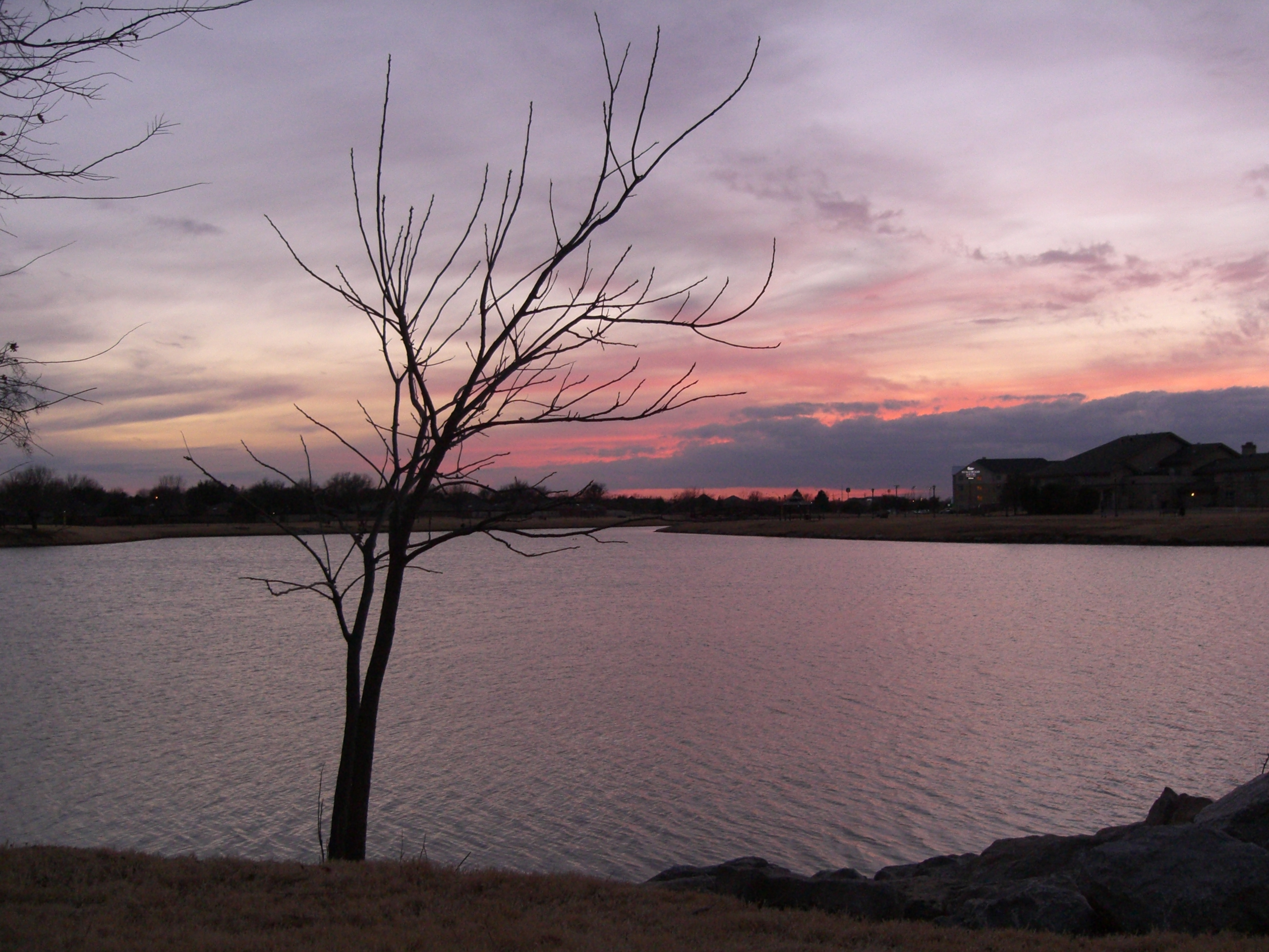 Lake on the campus of Midwestern State University at sunset